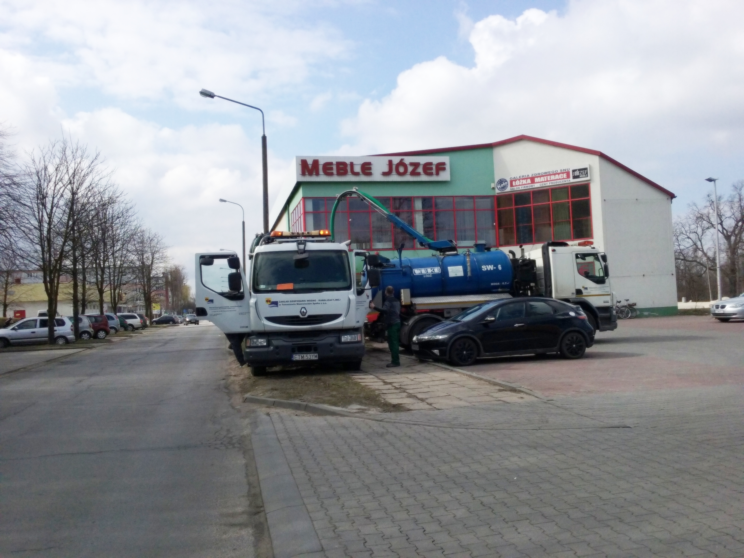 ZGWiK (pol. Zakład Gospodarki Wodno–Kanalizacyjnej) in Tomaszów Mazowiecki. Water supply works at Polskie Dzieci Street